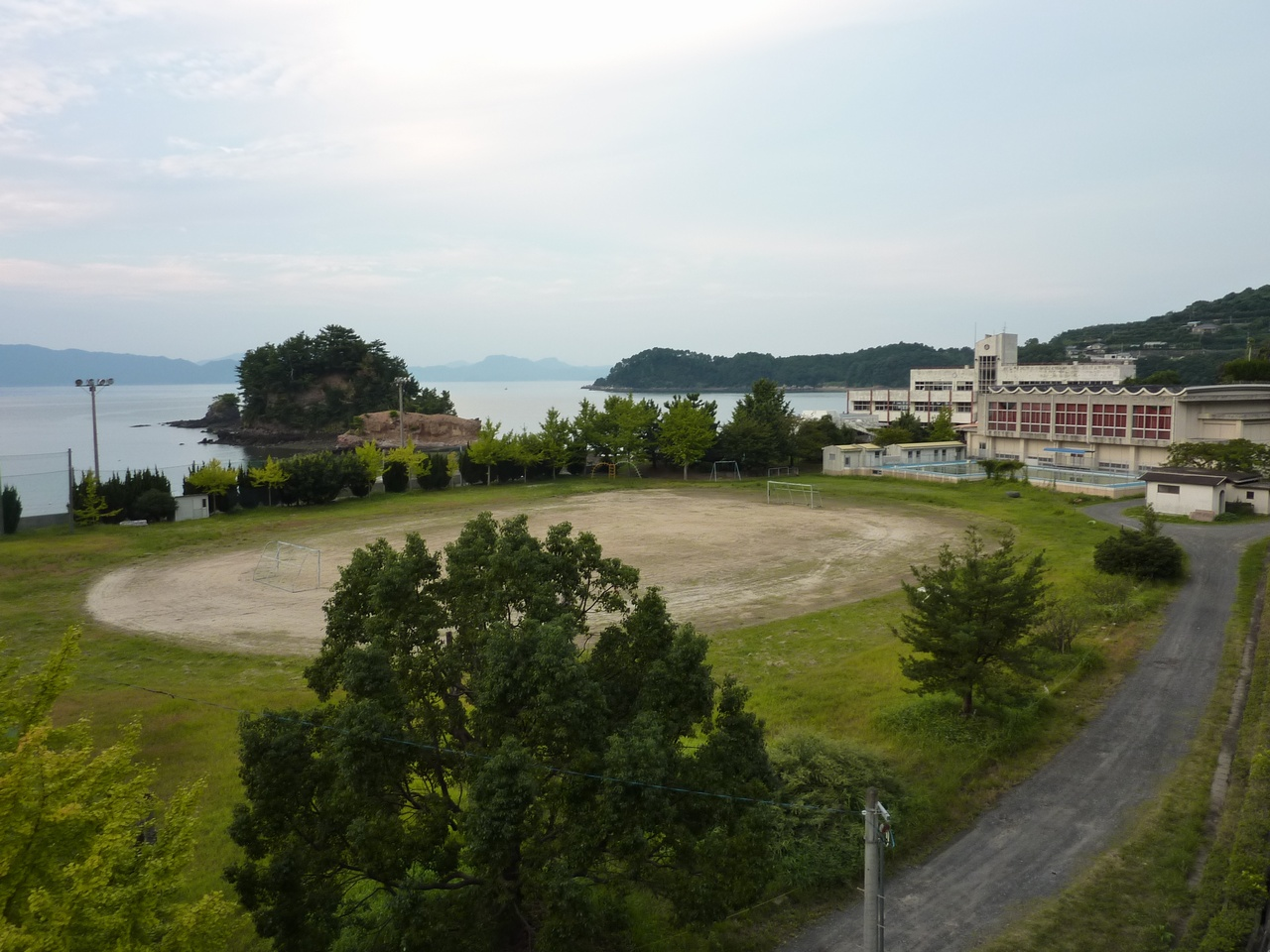 Ruin of Akasaki Elementary School (Tsunagi Town, Kumamoto Prefecture, Japan)